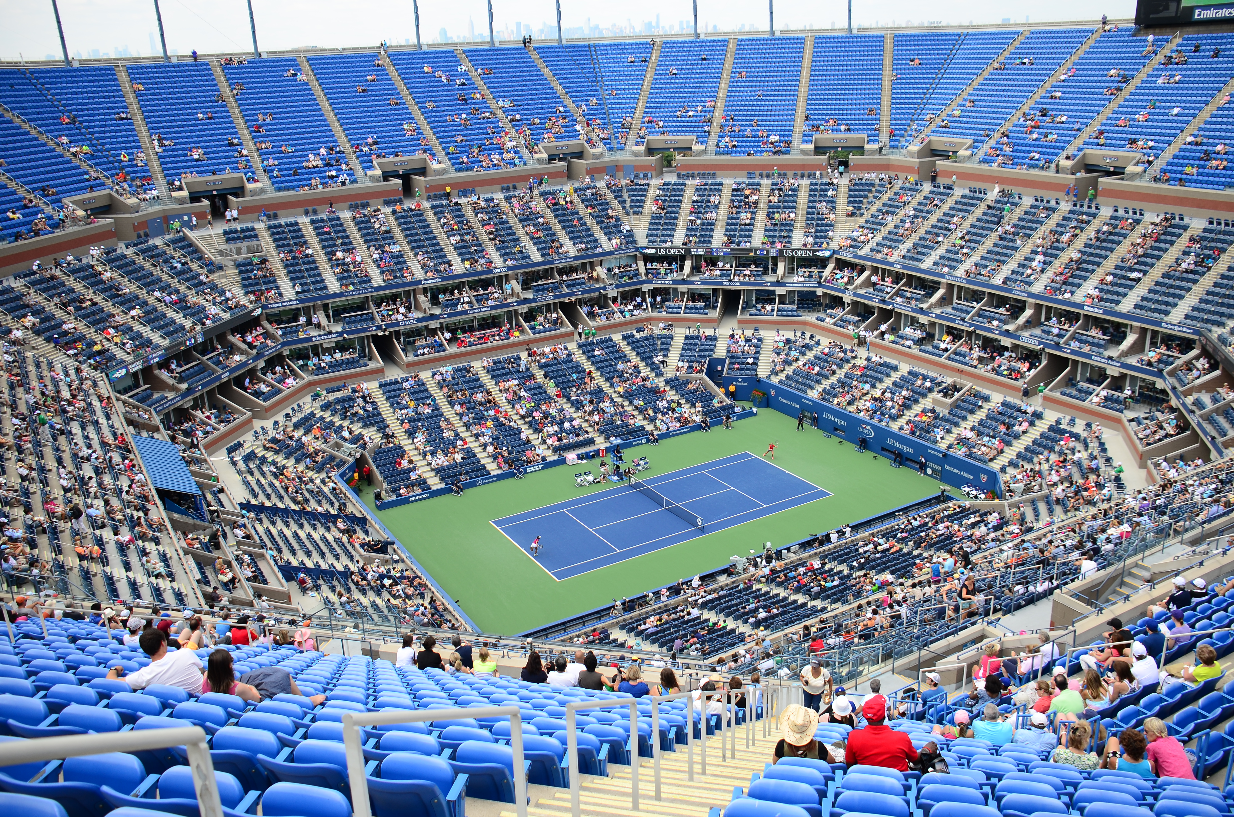 View From the Top of the Arthur Ashe Stadium